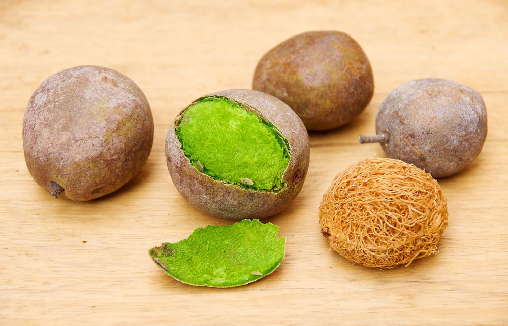 Detarium senegalense fruit. Mbour, Senegal.